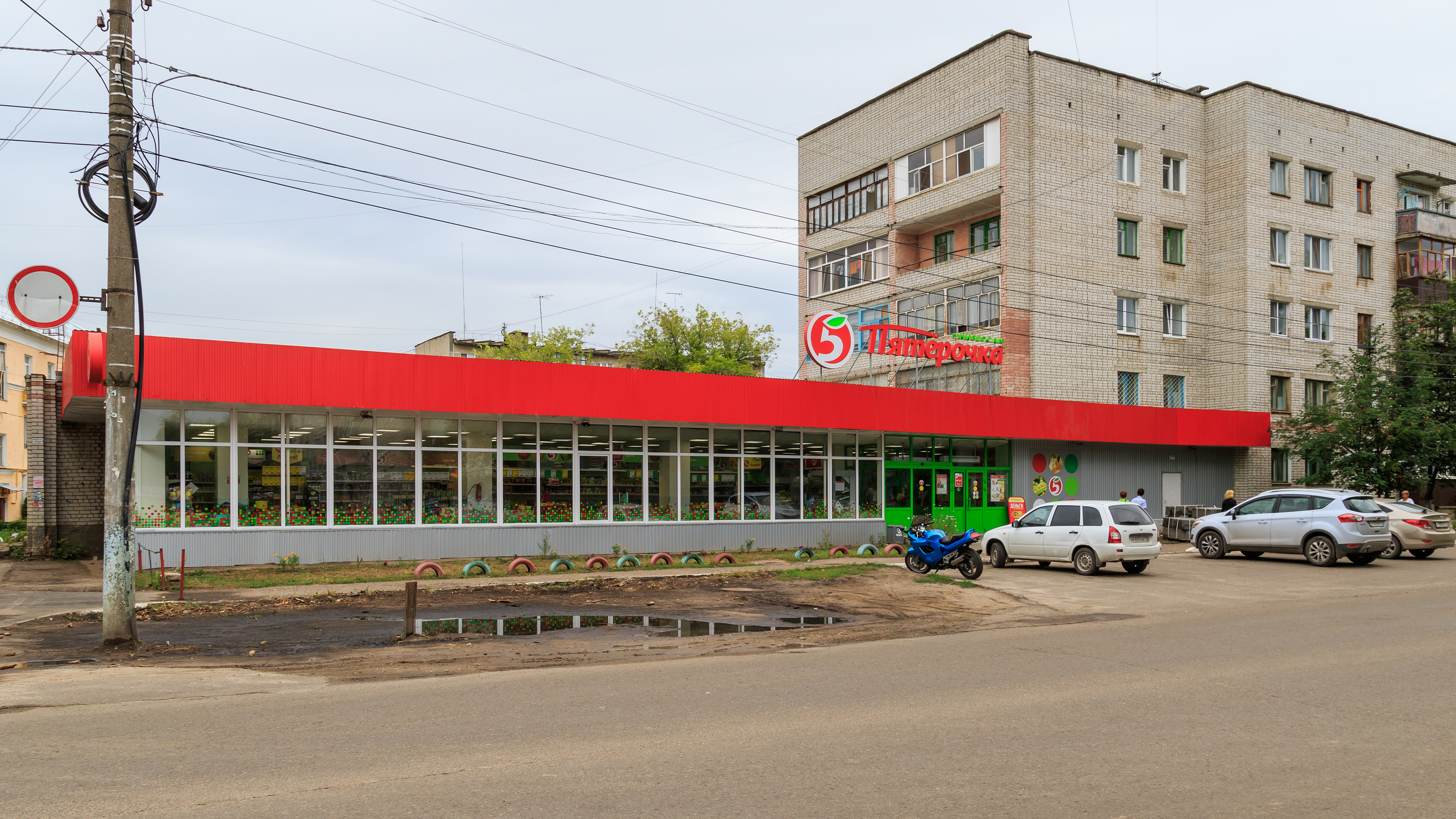 Pyaterochka shop in Volzhsk, Mari El, Russia